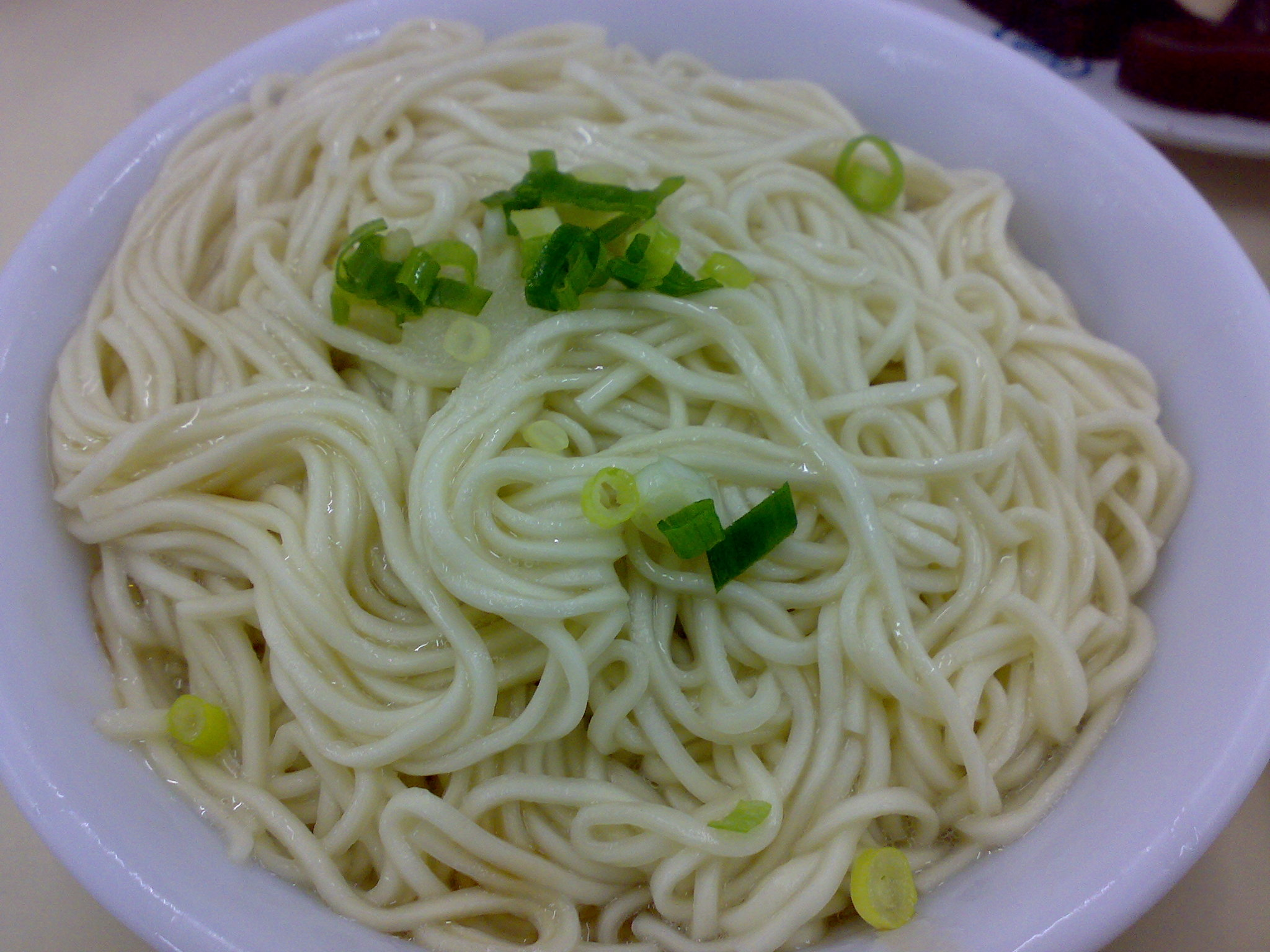 Noodles Mixed with Scallion, Oil and Soy Sauce